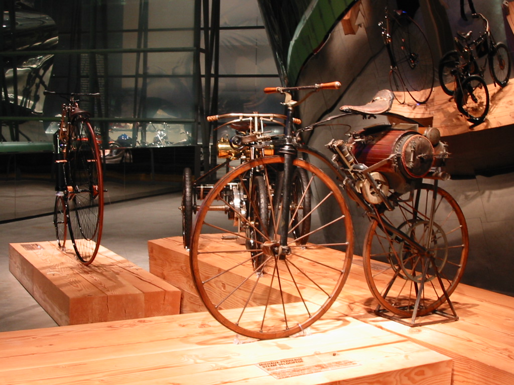 The Art of the Motorcycle. Las Vegas. Michaux-Perreaux steam velocipede right, foreground.